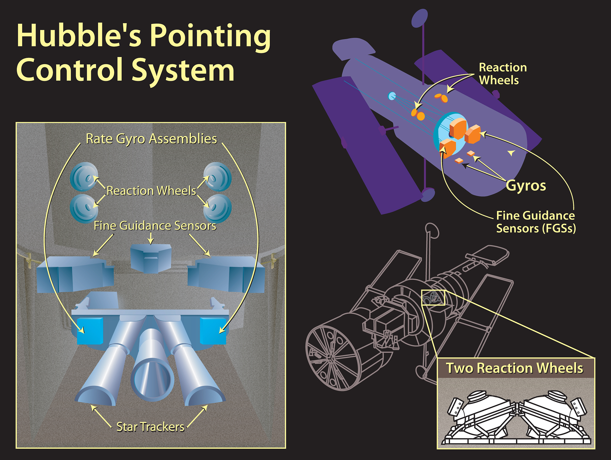 Hubble Space Telescope Pointing Control System Diagram